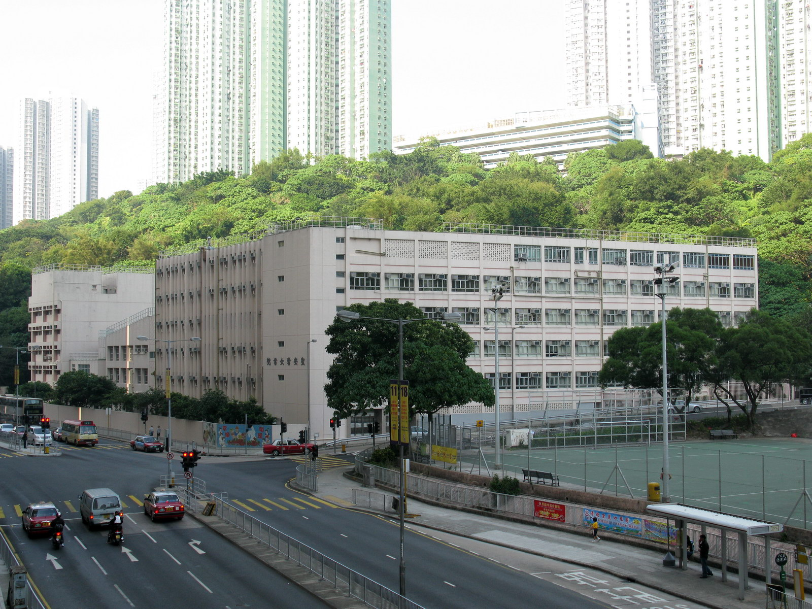 St. Antonius Girls' College